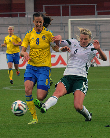 Lotta Schelin (Sweden) v Ashley Hutton (Northern Ireland)